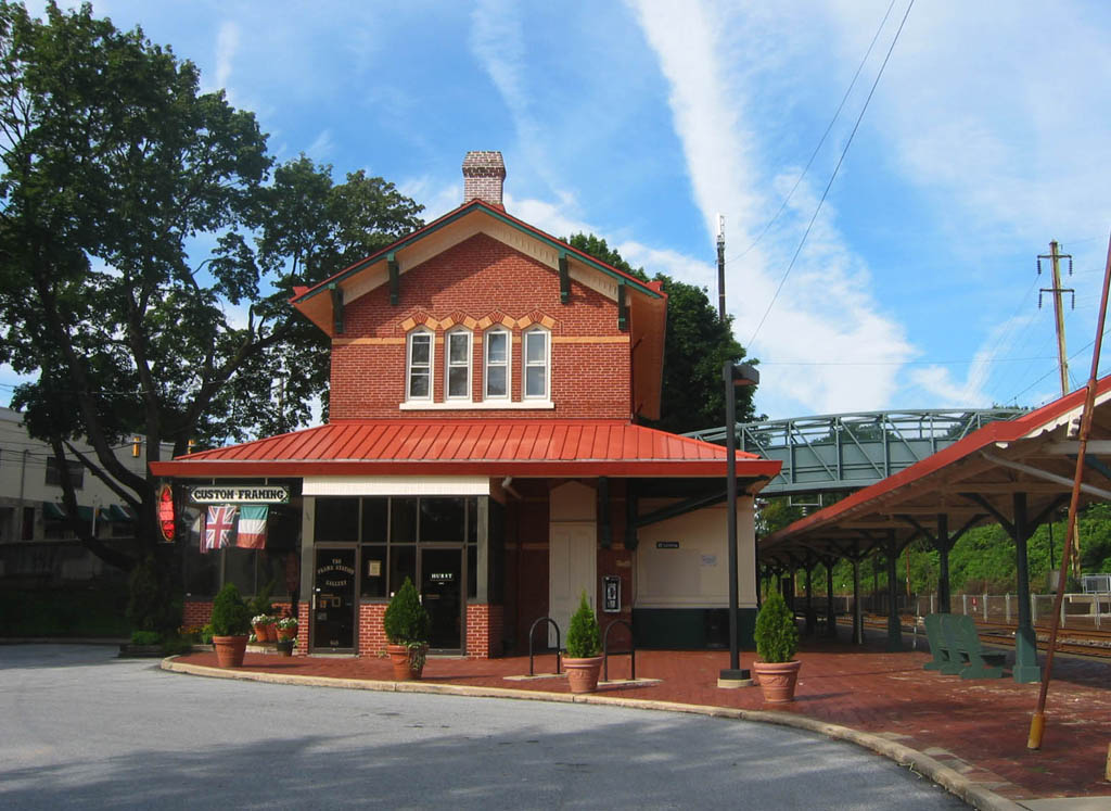 Berwyn station in July 2005